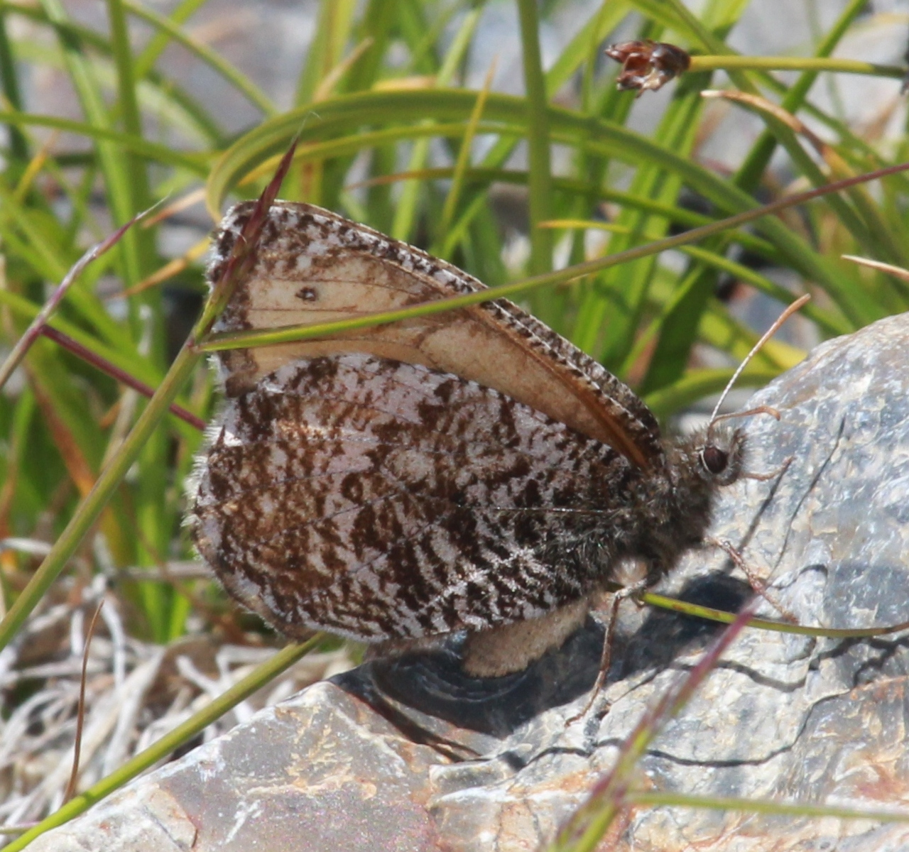 Oeneis norna asamana in Mount Chō, Hida Mountains, Nagaono prefecture, Japan.